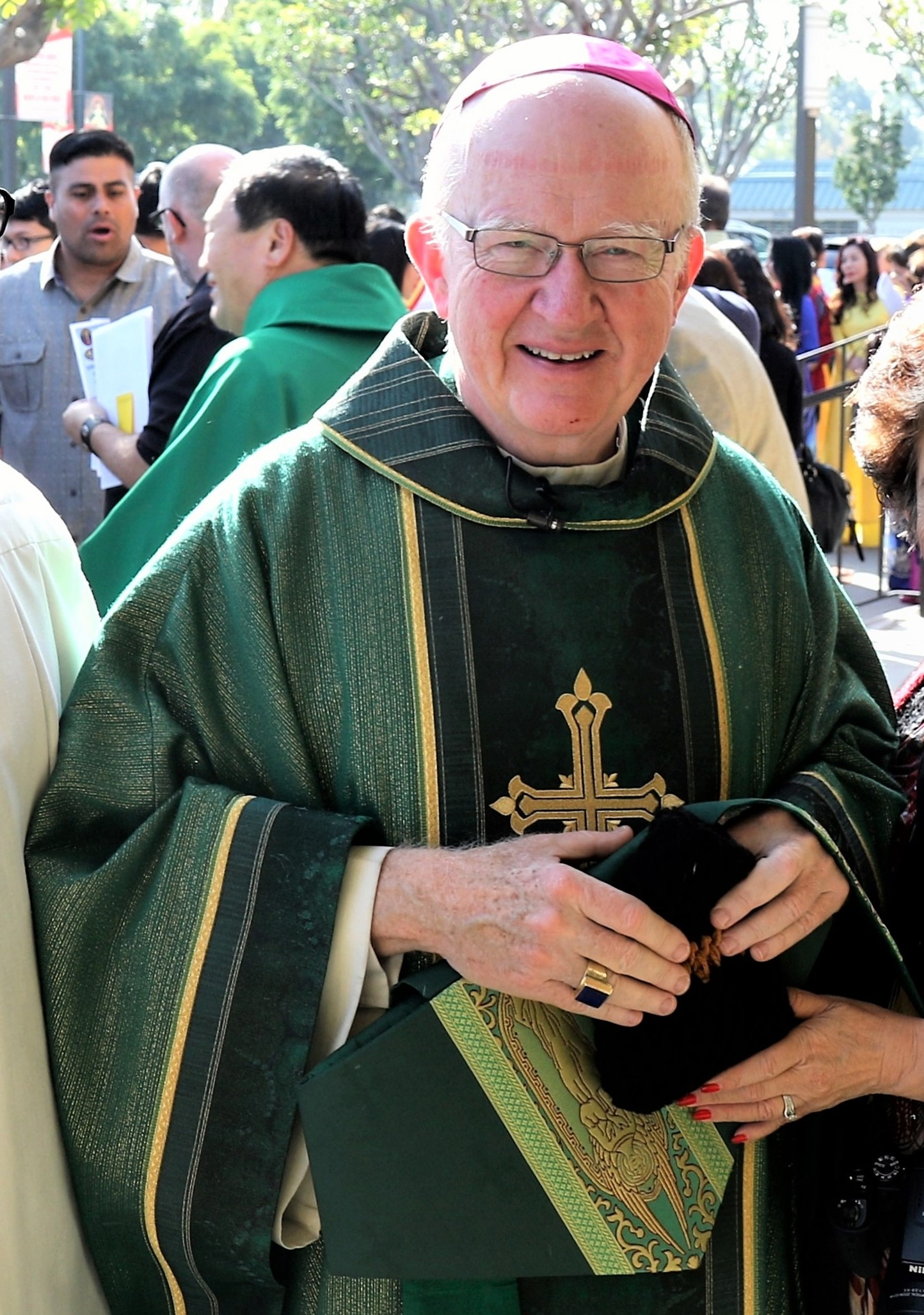 Bishop Kevin Vann and a parishioner in 2017.